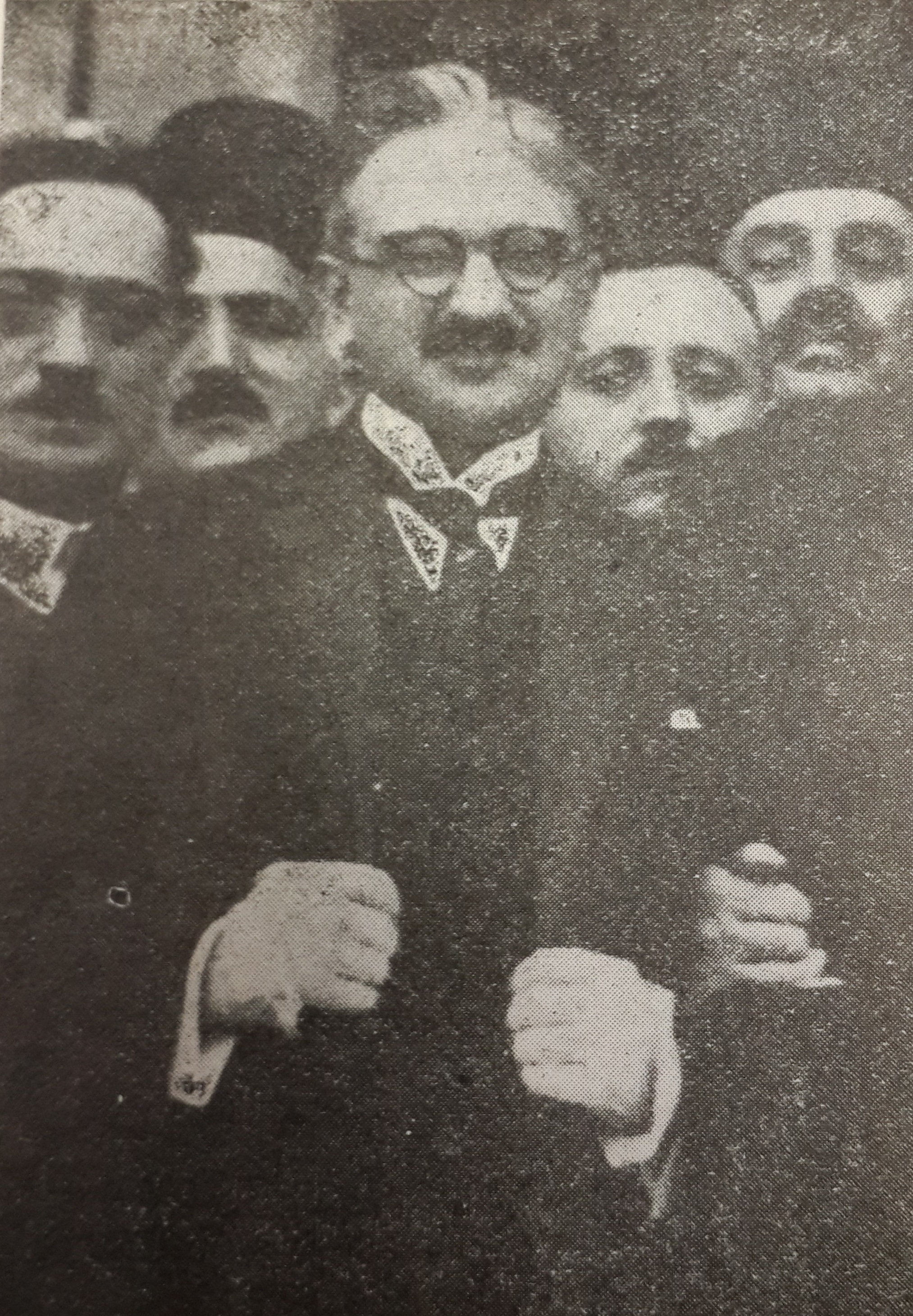 Charles Debbas, 1st President of Lebanon During the French Mandate era.